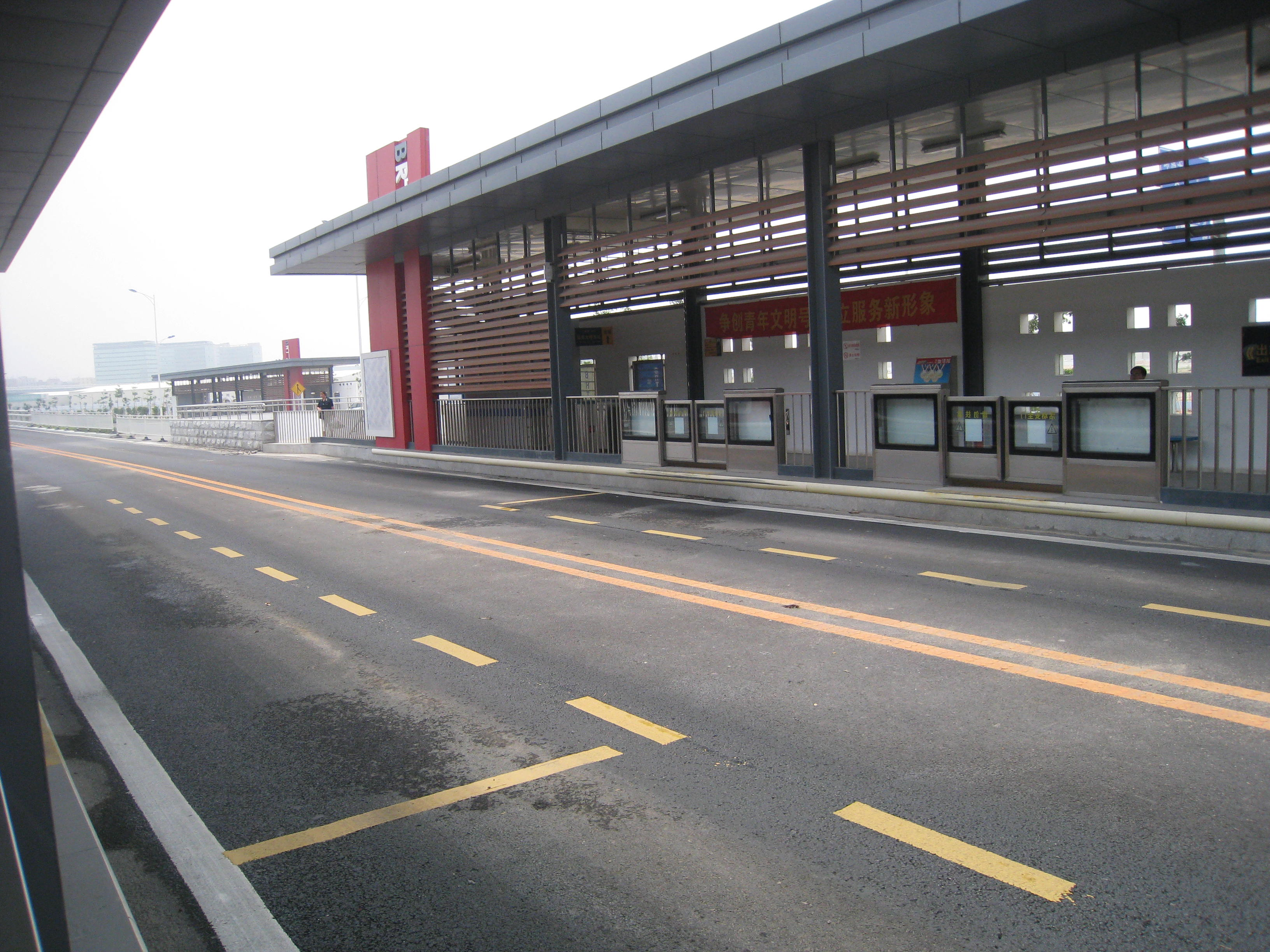 Jimei South Bridge Station